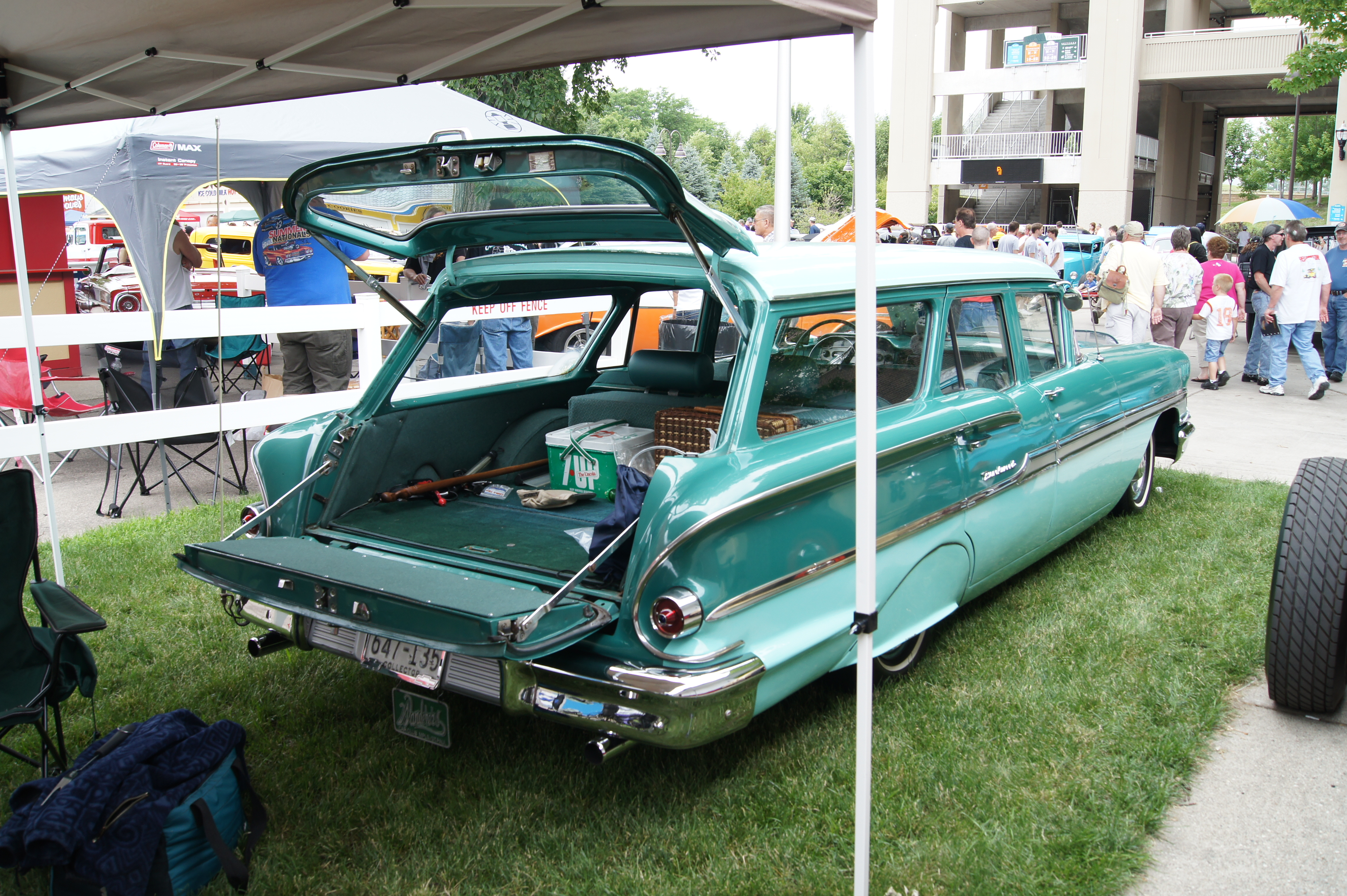 Minnesota Street Rod Association 39th Annual "Back to the Fifties" June 2012 Minnesota State Fairgrounds St. Paul MN